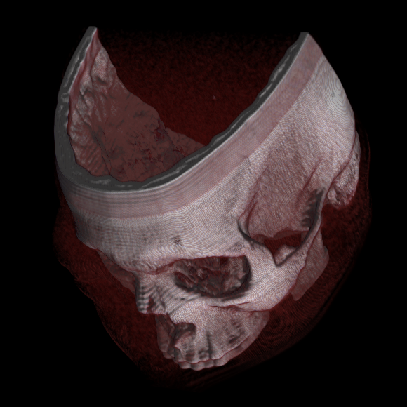 Rendered by uploader User:Sjschen. Image of a cadavar head CT scan rendered using view aligned slicing with alpha blending. Lower density flesh and brain matter are assigned lower alpha values